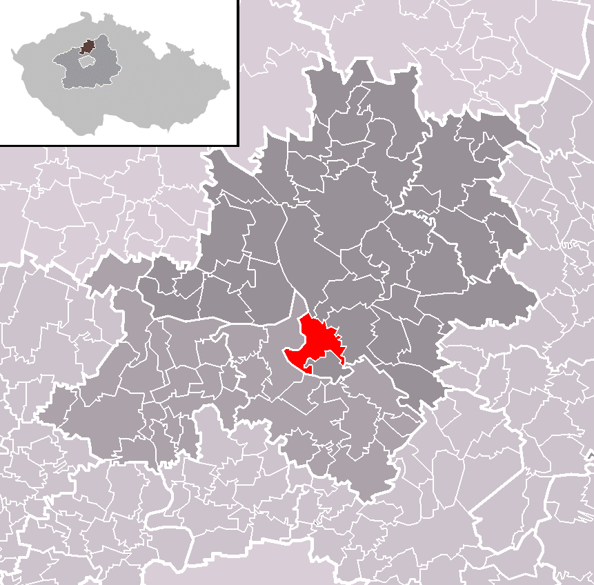 Location of Kly municipality within Mělník District and administrative area of Mělník as a Municipality with Extended Competence.